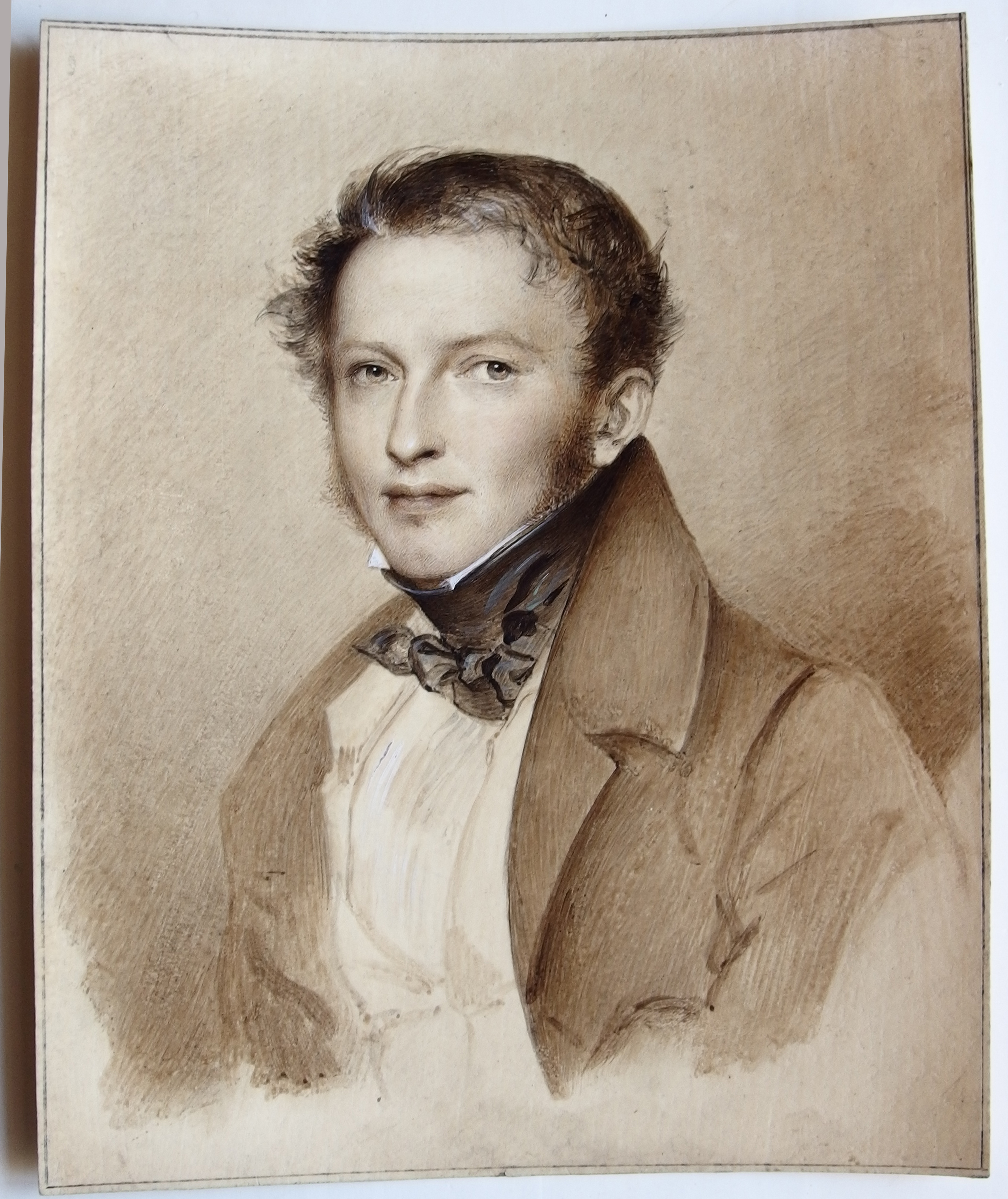 Karl Klingemann German diplomat, writer, composer, also close friend of Felix Medelssohn Bartholdy and his family, August Grahl, miniature portrait painting on paper